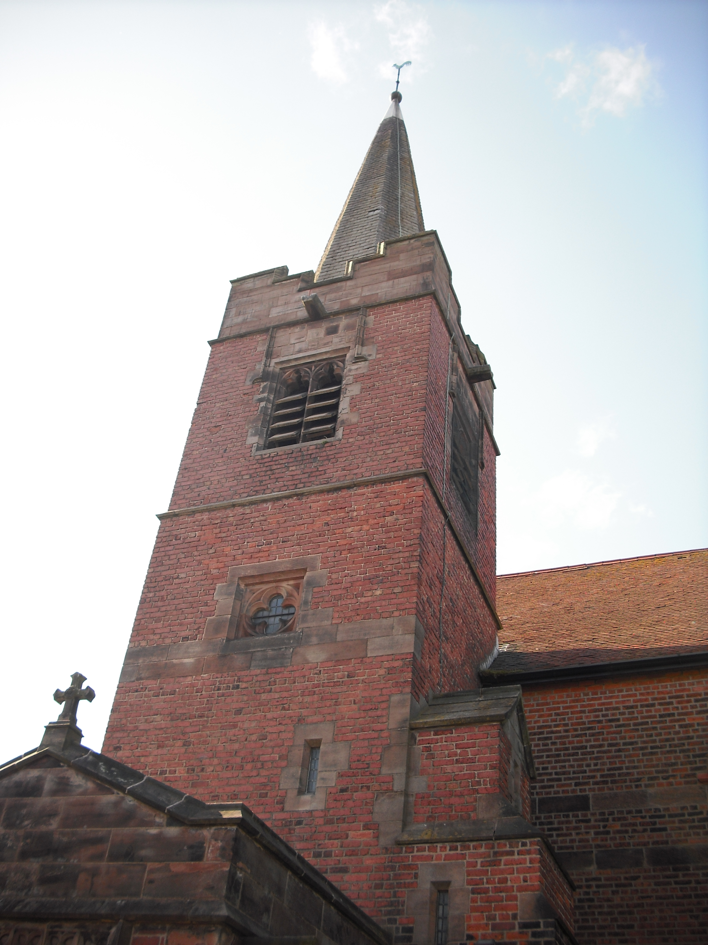 Southwest tower of Christ Church parish church, Garstang Road North, Wesham, Lancashire, seen from the southeast